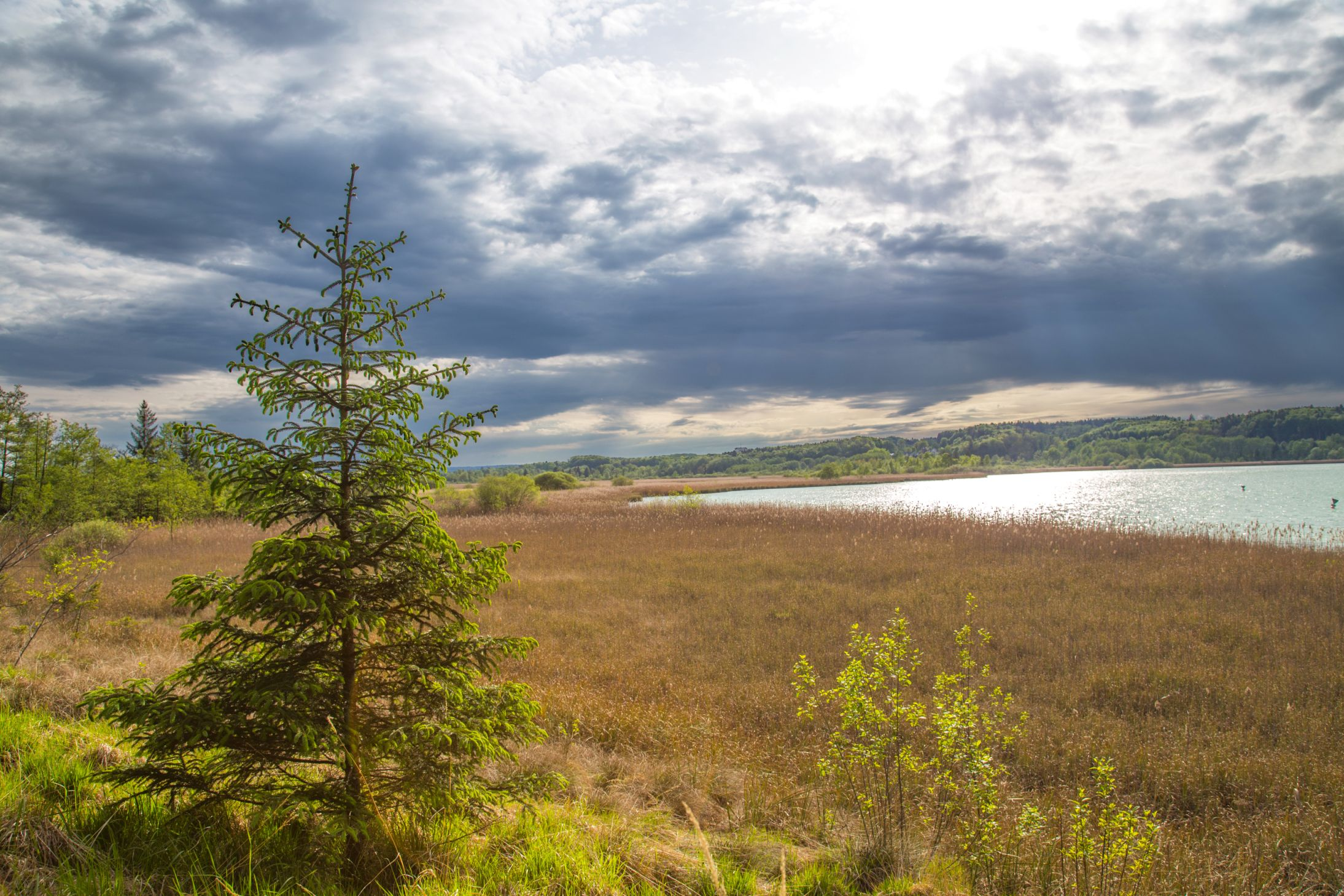 Herrschinger Moos is a swamp located between Ammersee and Pilsensee